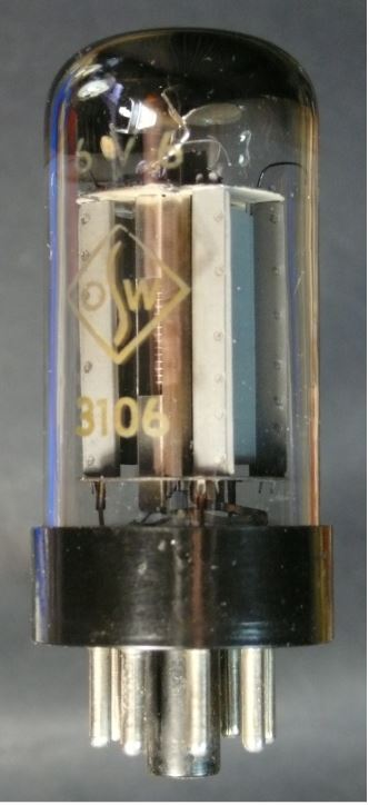 6V6 tube of east german manufactur.